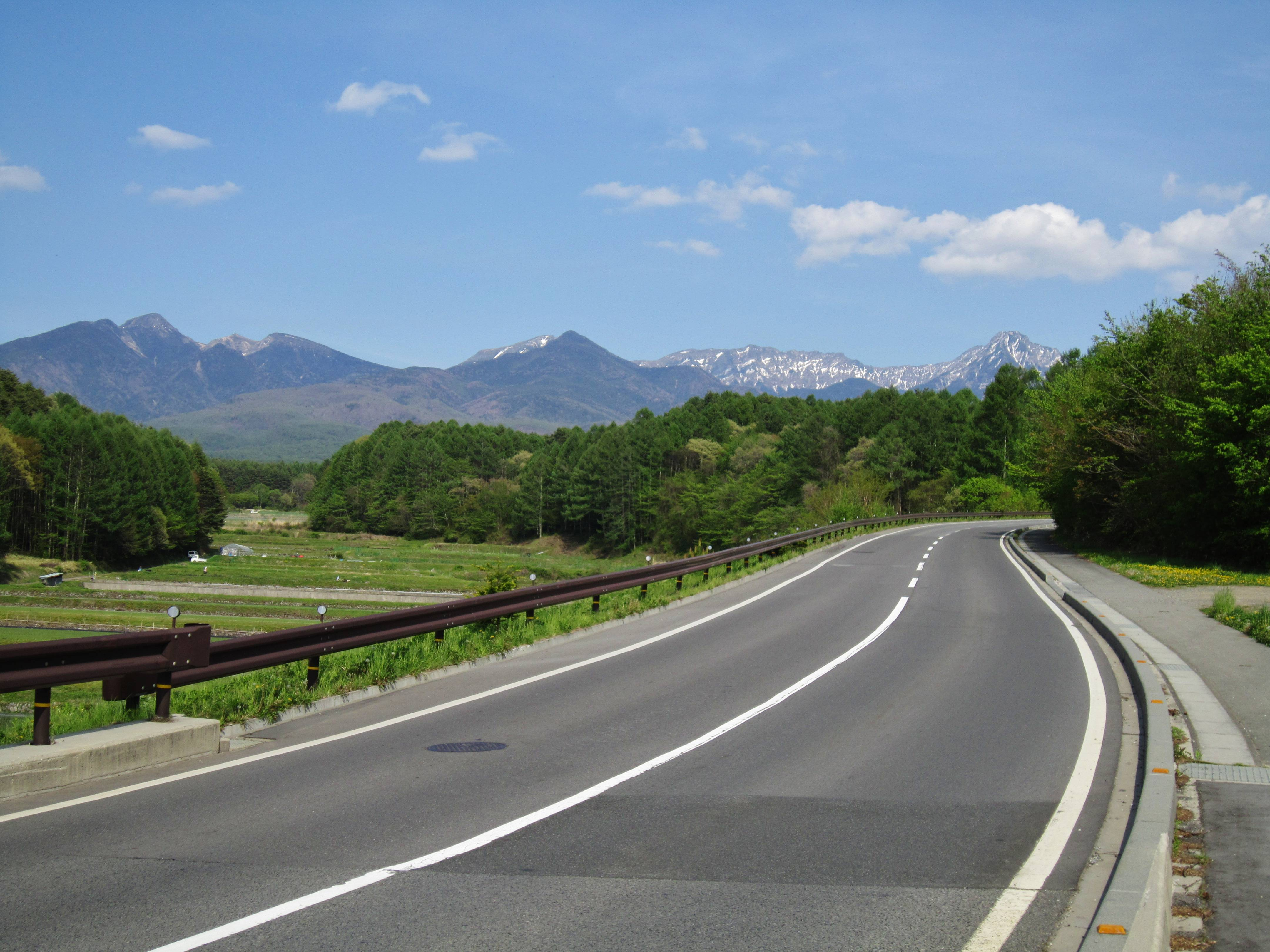 Yatsugatake Echo Line.